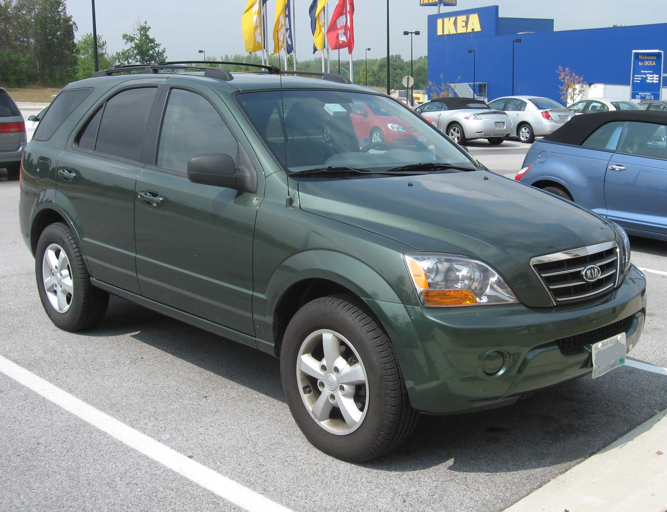 2007 Kia Sorento photographed in USA.